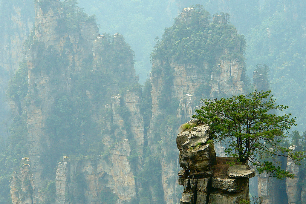 Wulingyuan, Zhangjiajie, Hunan Prov., China. Tree is Pinus tabuliformis var. henryi. It is variety henryi (=Pinus henryi), because it is growing in Hunan province.